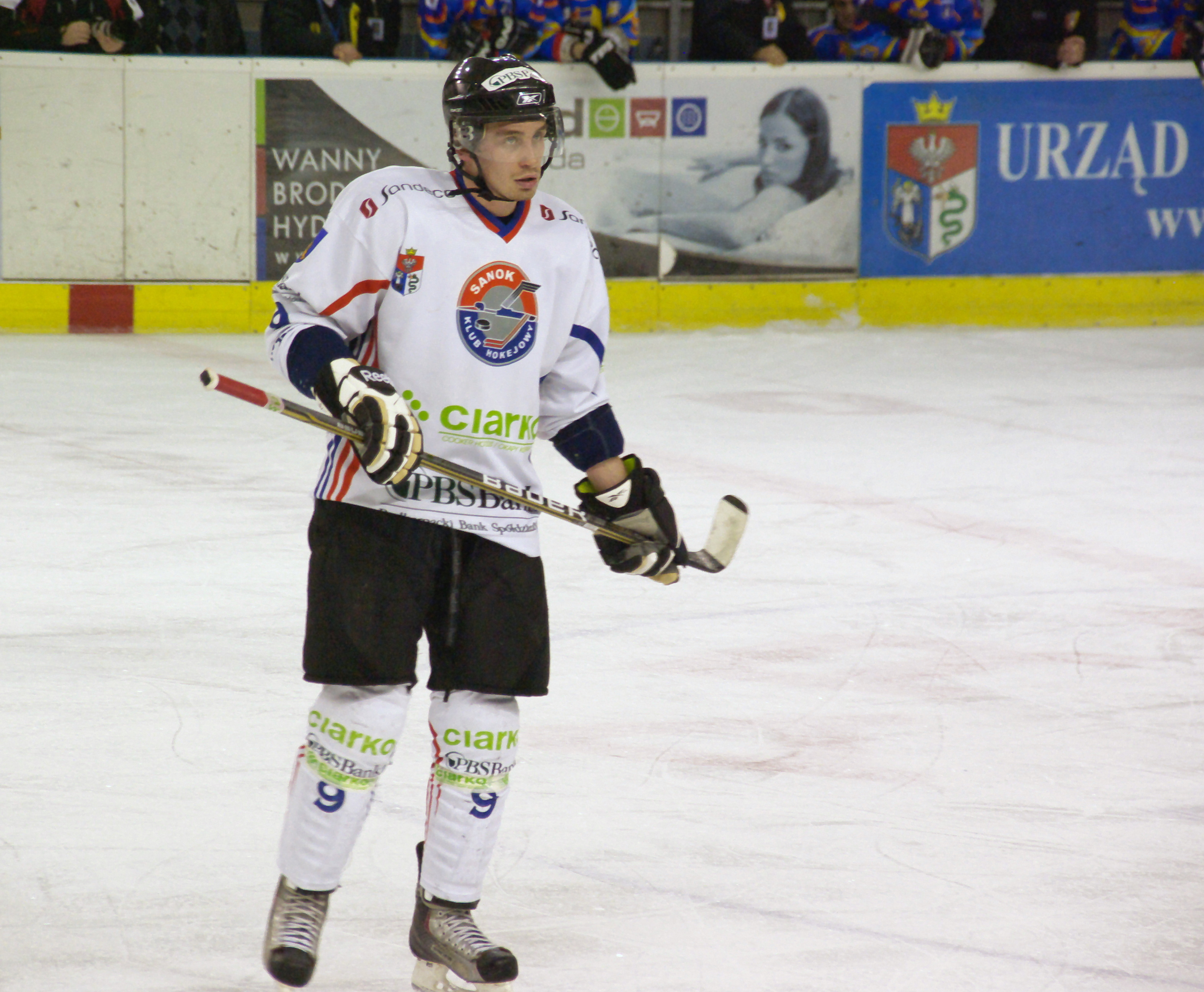 Krystian Dziubiński during match KH Sanok - MMKS Podhale Nowy Targ 20.03.2011